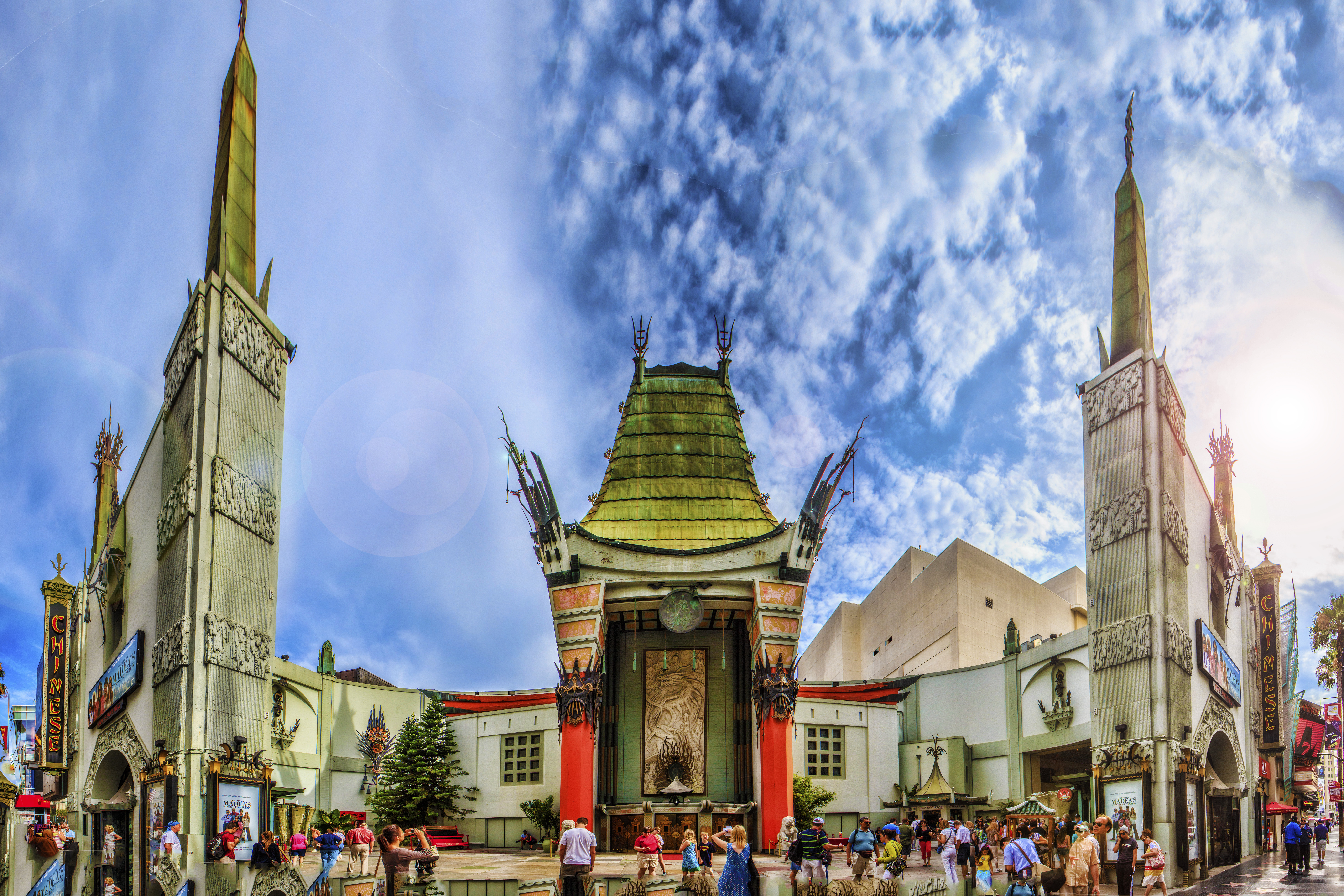 A panorama of Grauman's Chinese Theater in Hollywood